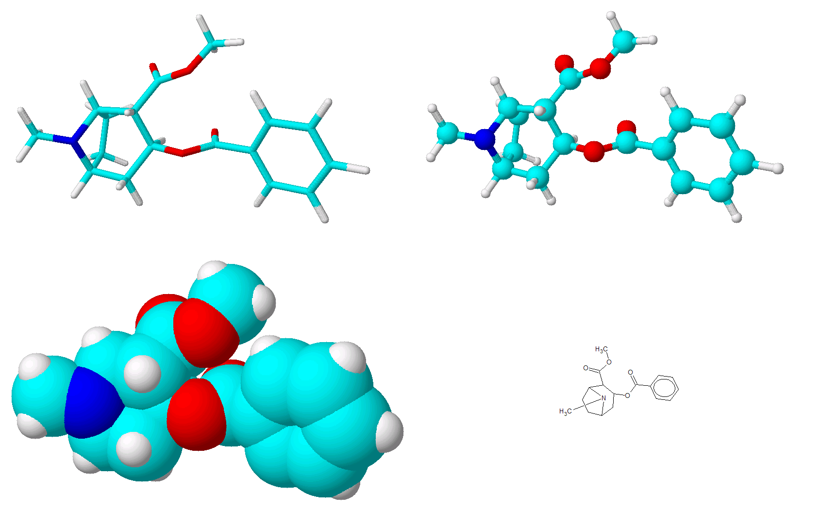 Four different representations of cocaïne; top left: stick method, top right: balls-and-sticks method, bottom left: as it probably appears in reality, showing space usage. Light blue / C is carbon, Red / O is oxygen, White / H is hydrogen, and dark blue / N is nitrogen. Made with the help of ACD/3D-viewer.